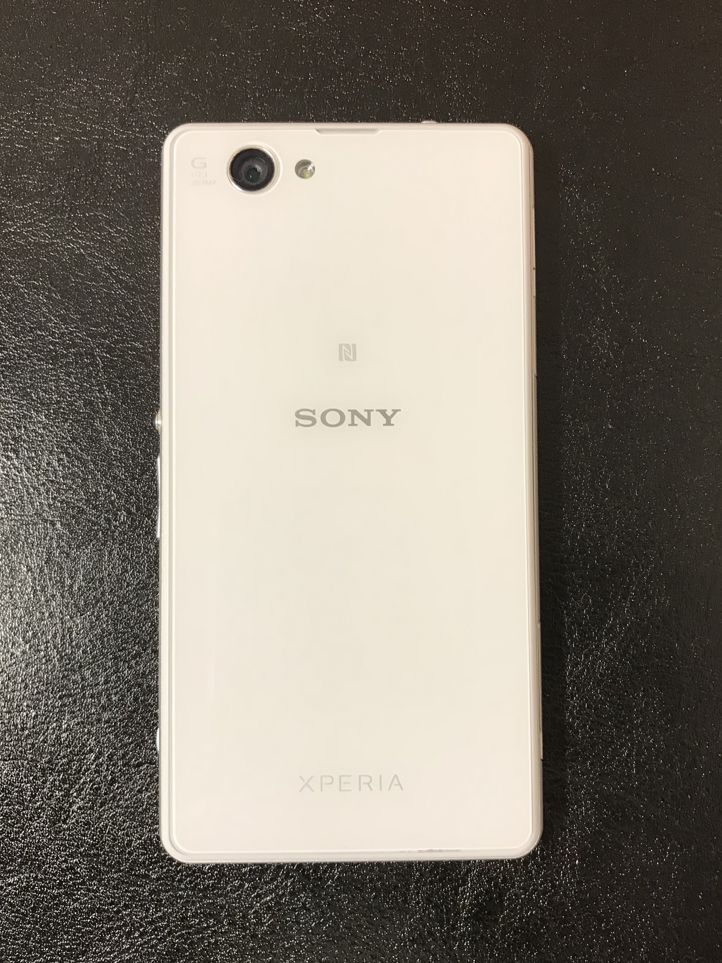 back of a phone